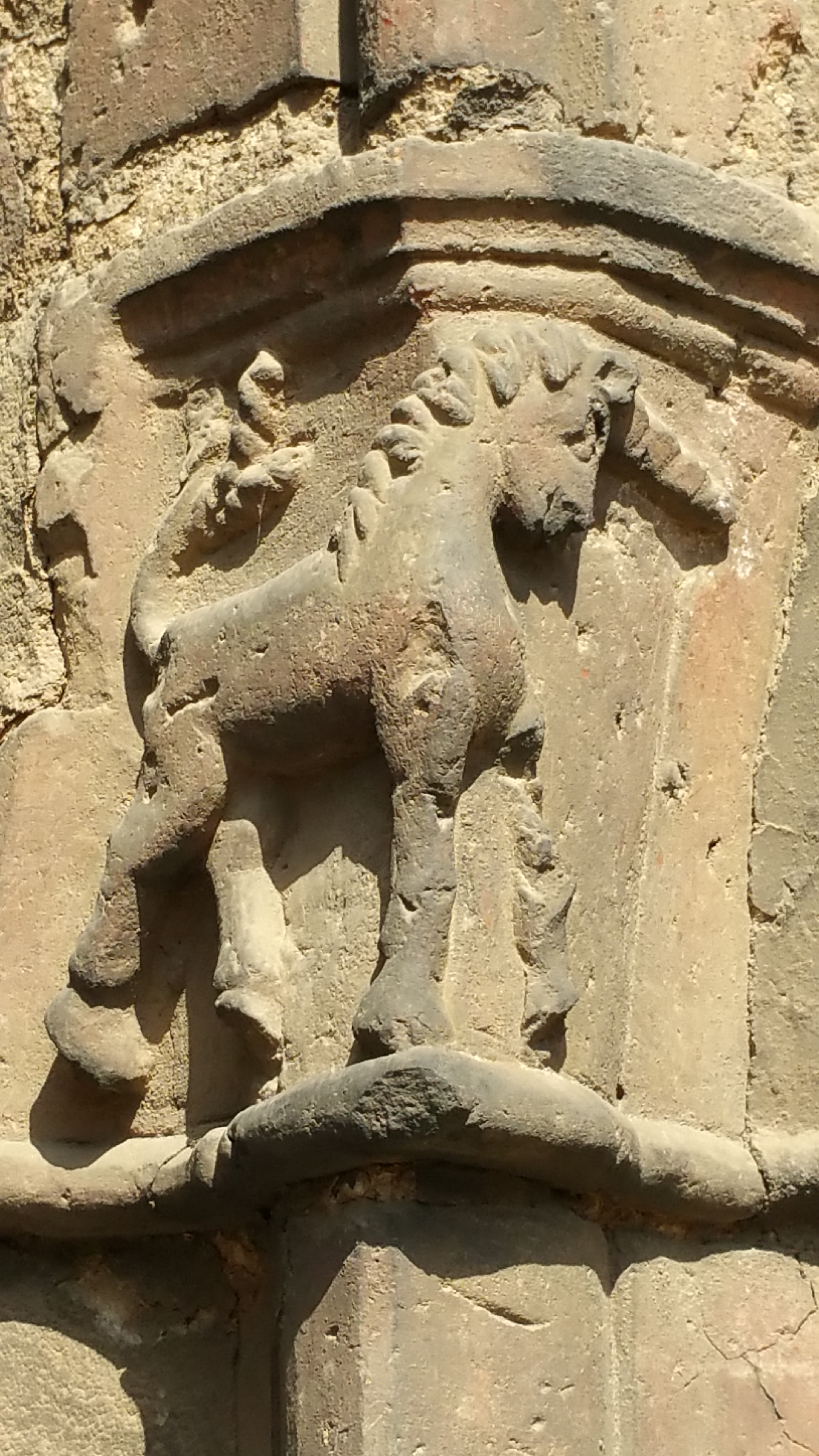 Terracotta unicorn, 13th century